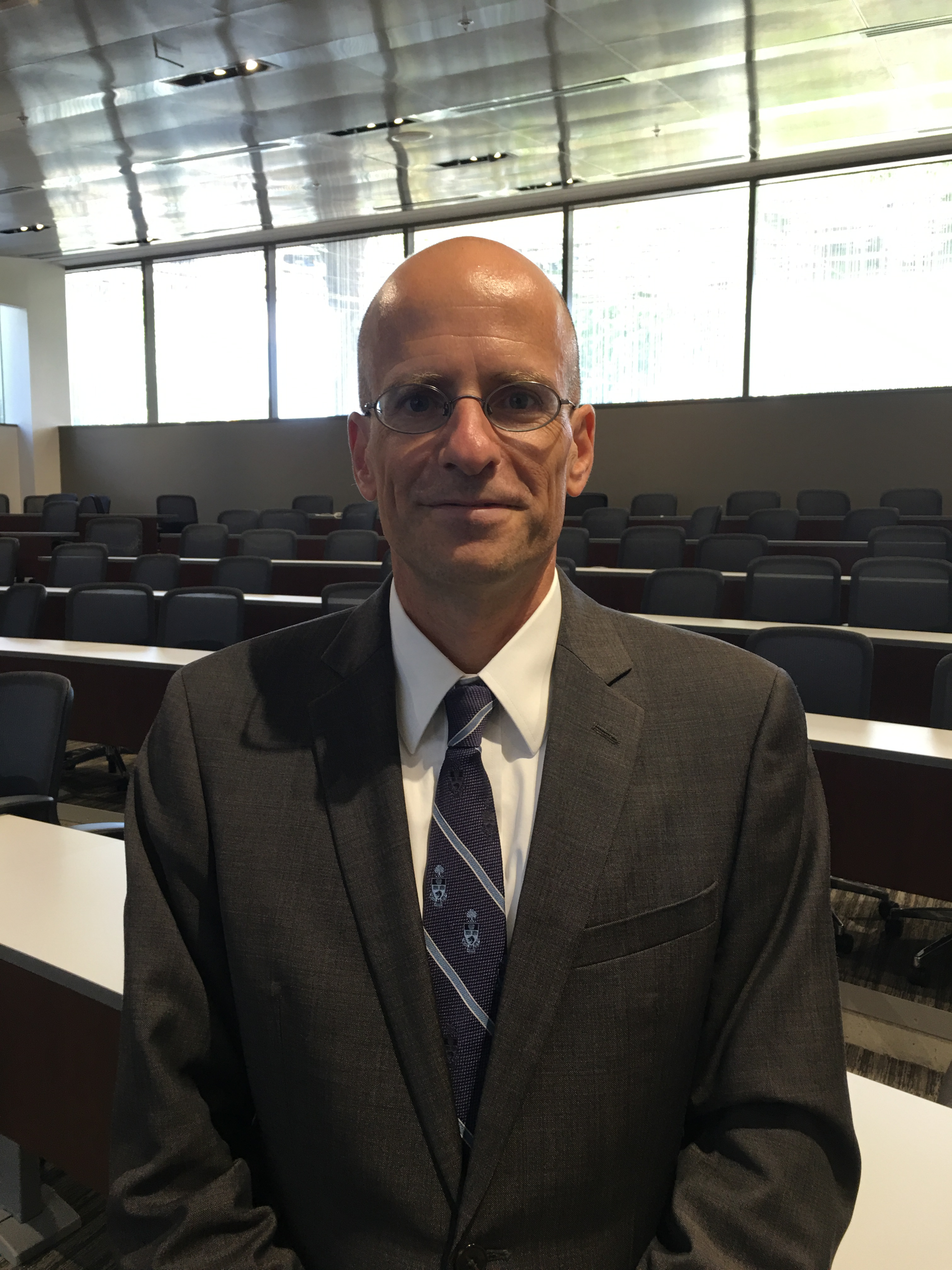 A photograph of Edward Iacobucci, dean of the University of Toronto Faculty of Law